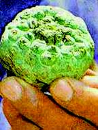 Peyote from